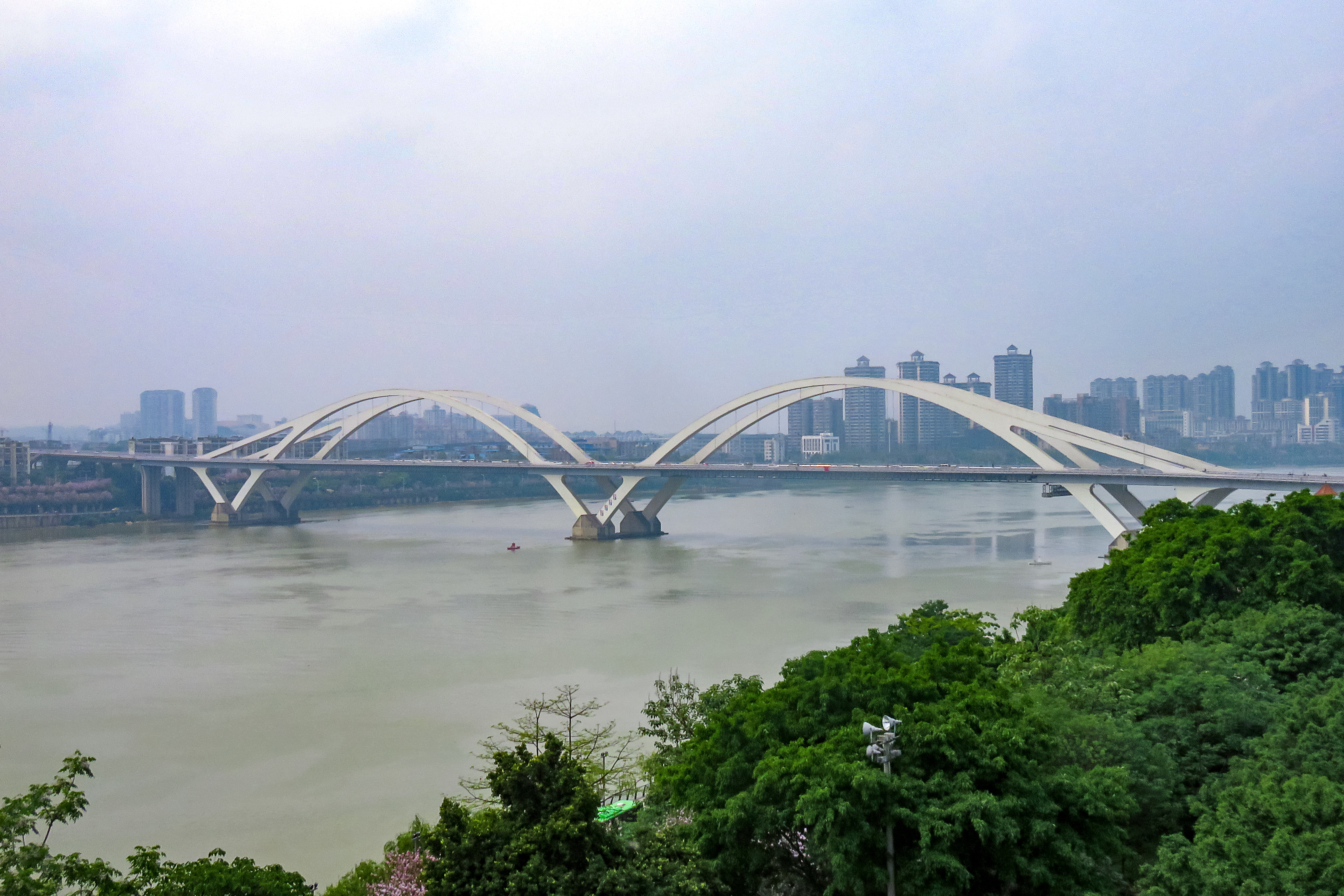 This bridge is only completed in late 2013.